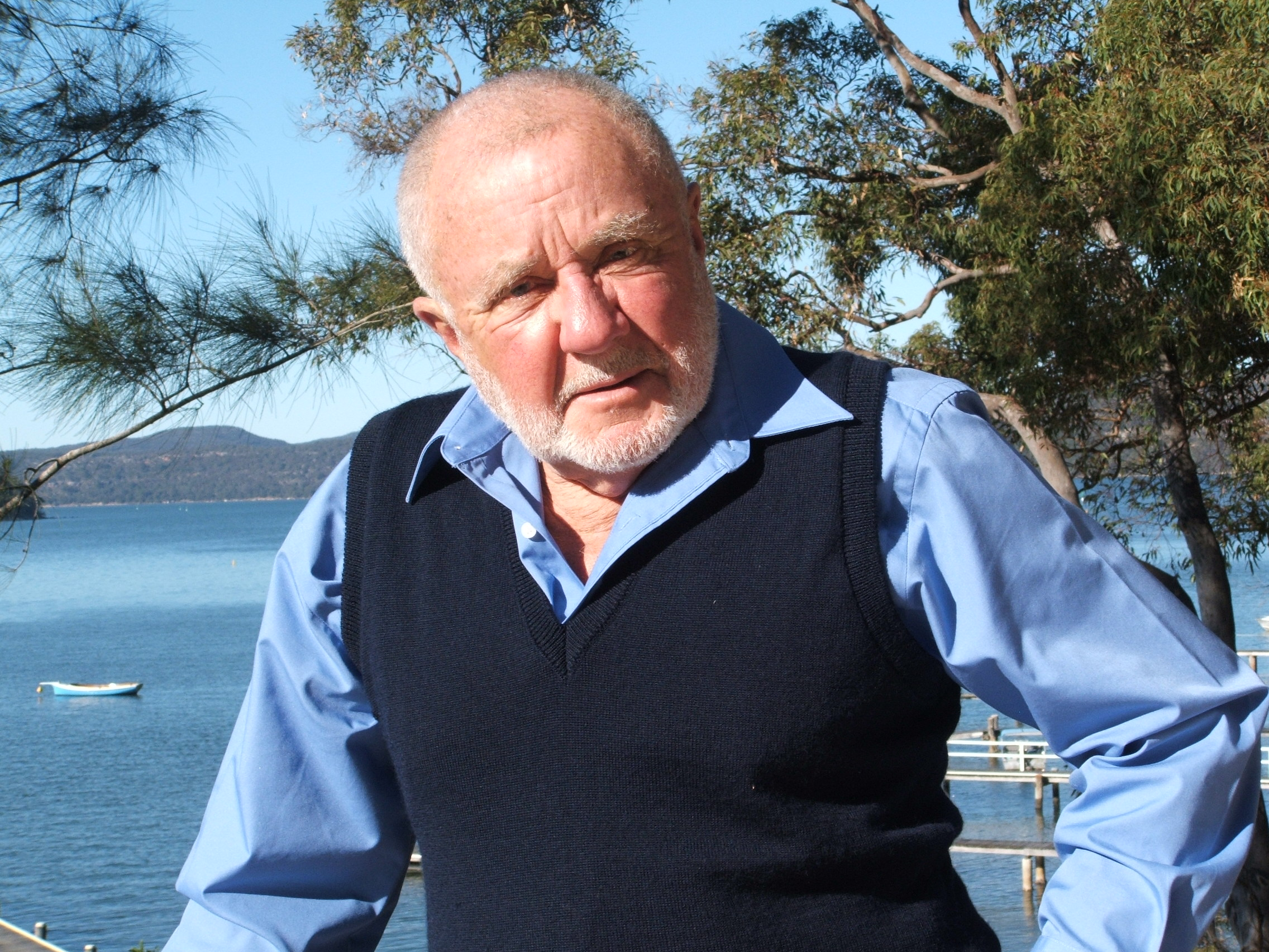 Harry Recher. Image taken by Judy Recher and provided by Harry and Judy Recher.